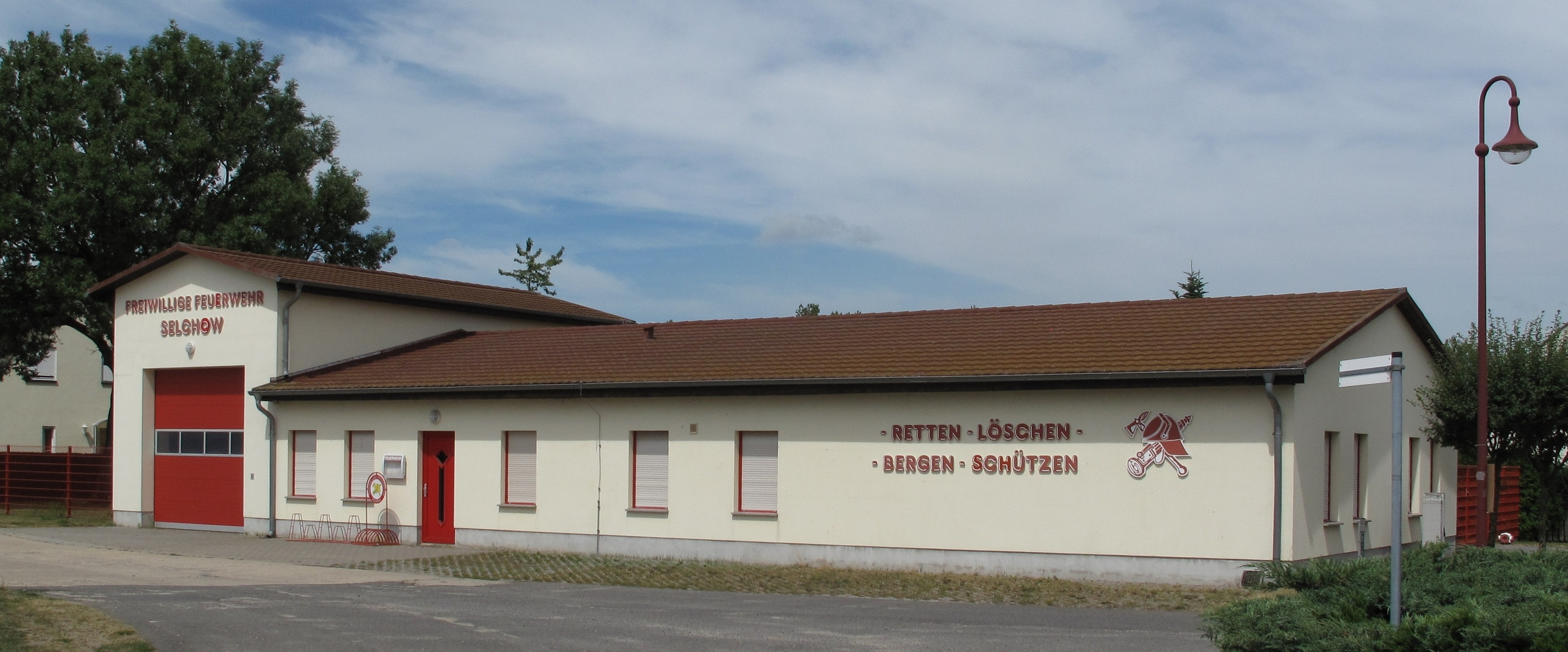 Volunteer fire department in Selchow. The village Selchow is a part of the town Storkow, District Oder-Spree, Brandenburg, Germany. The village was first mentioned in 1321 and had on January 1, 2013 259 inhabitants.